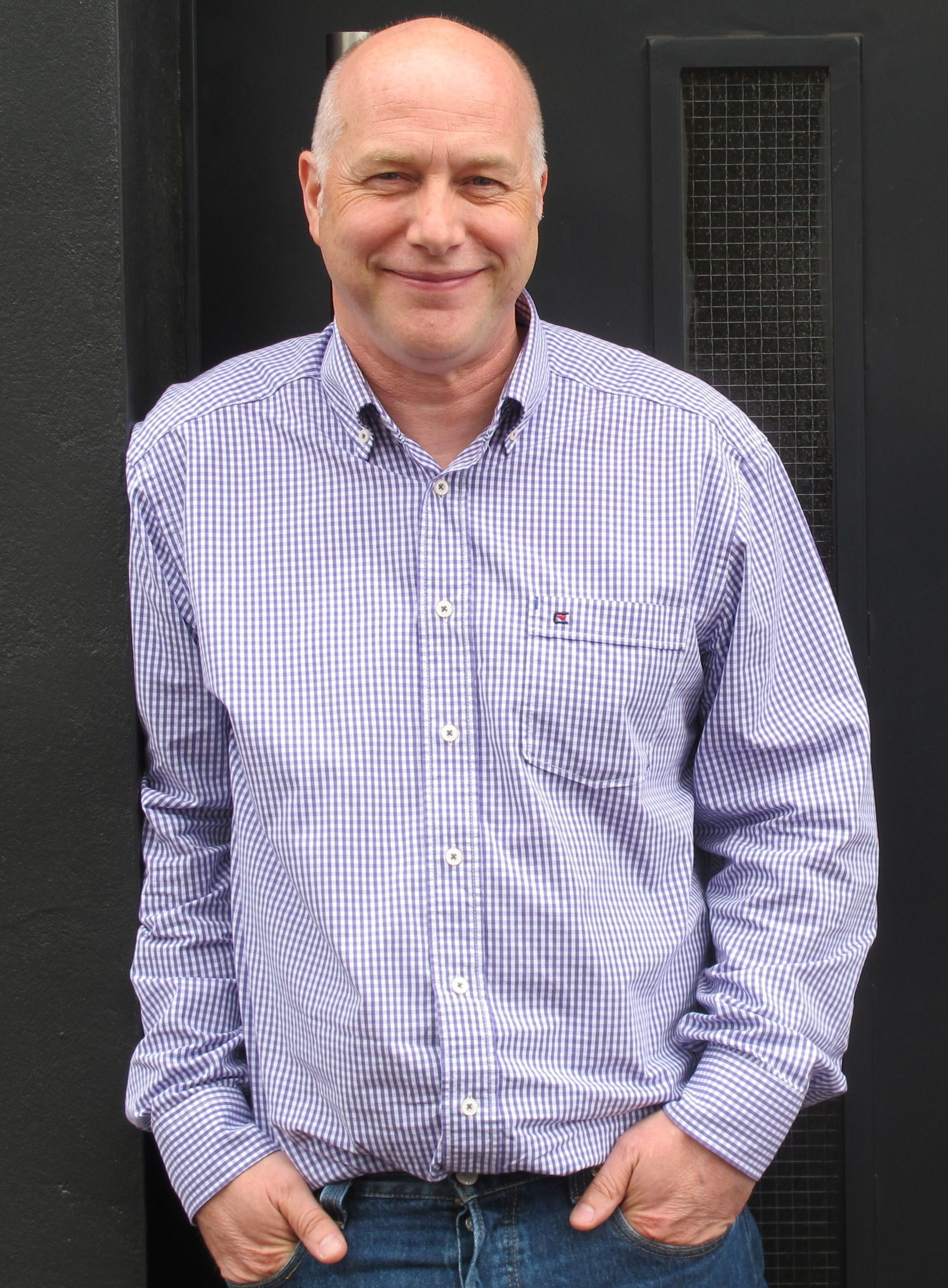 Neil Hillman outside The Audio Suite's Dolby mixing theatre, Birmingham UK, April 2012.